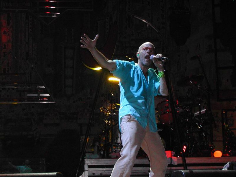 Michael Stipe, lead singer of United States rock band R.E.M., singing in concert in Padova.